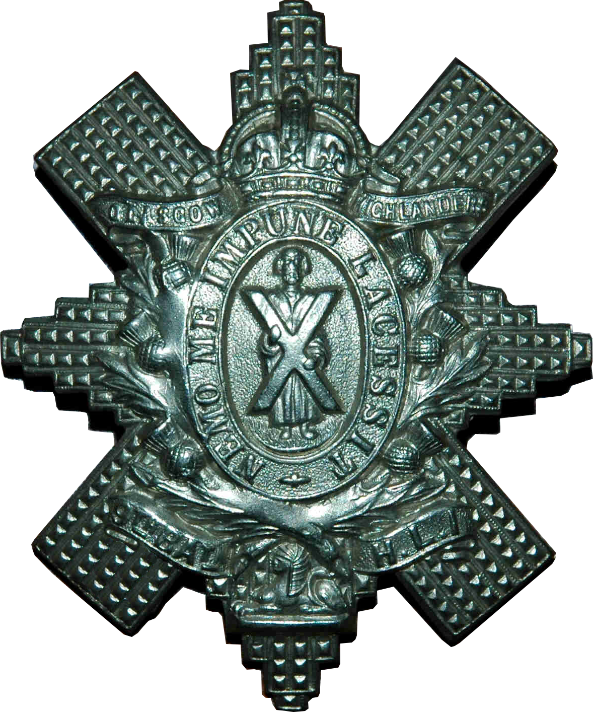 Capbadge of the Glasgow Highlanders of the Highland Light Infantry